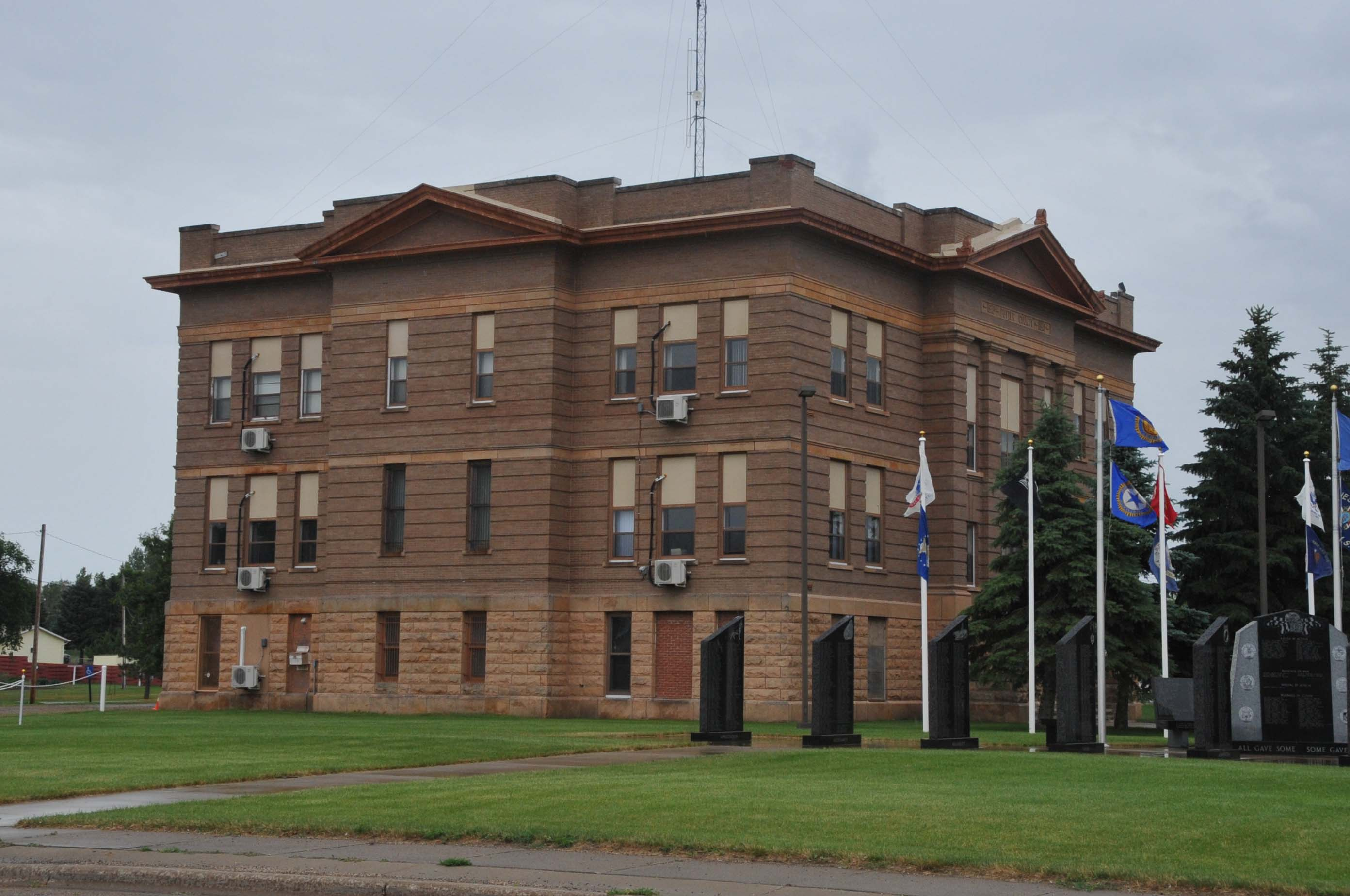 BUILT IN 1910 AND DEDICATED FOLLOWING YEAR, THIS CLASSICAL REVIVAL COURTHOUSE WAS DESIGNED BY THE BLACK HILLS COMPANY OF DEADWOOD.